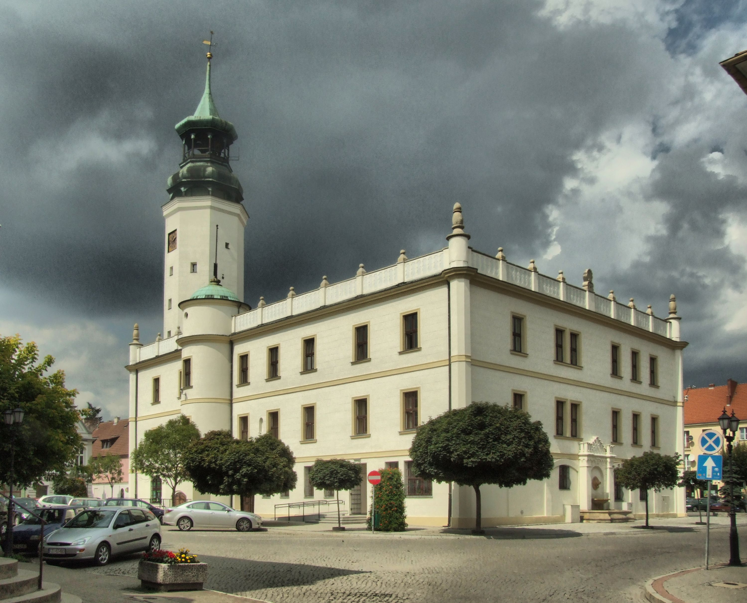 the Town Hall in Sulechów